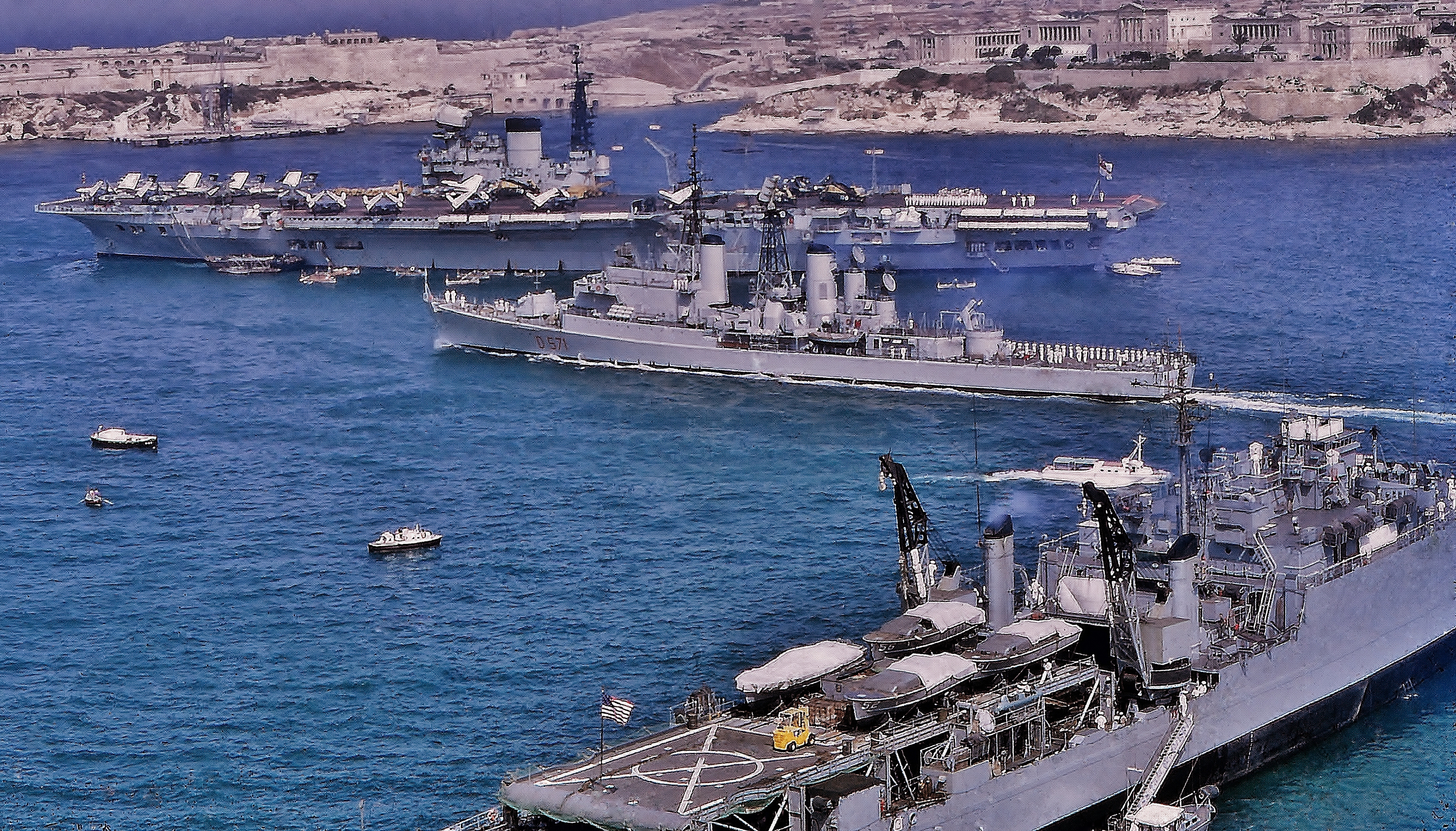 Grand Harbour, Malta. Furthest away is the Royal Navy's aircraft carrier HMS Victorious (R38). In the centre, steaming right to left, is the Italian Navy's guided missile destroyer Intrepido (D571). In the foreground is a U.S. Navy Casa Grande-class dock landing ship..